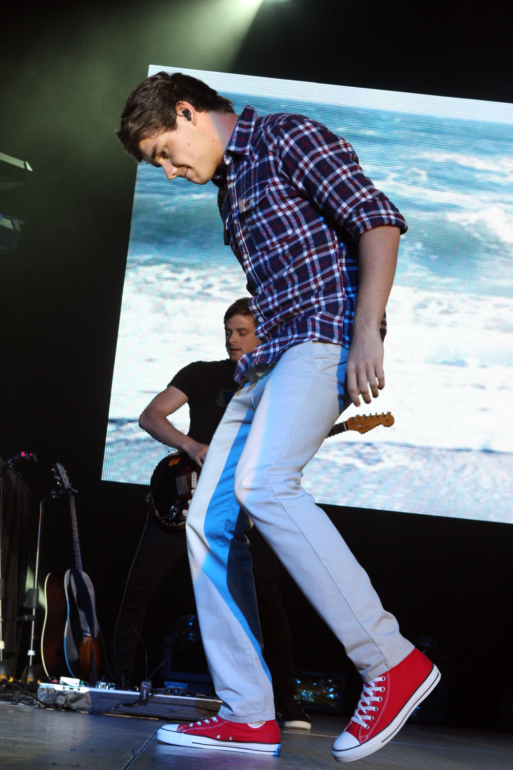 One Direction performs at Hordern Pavilion, Moore Park, Sydney, Australia